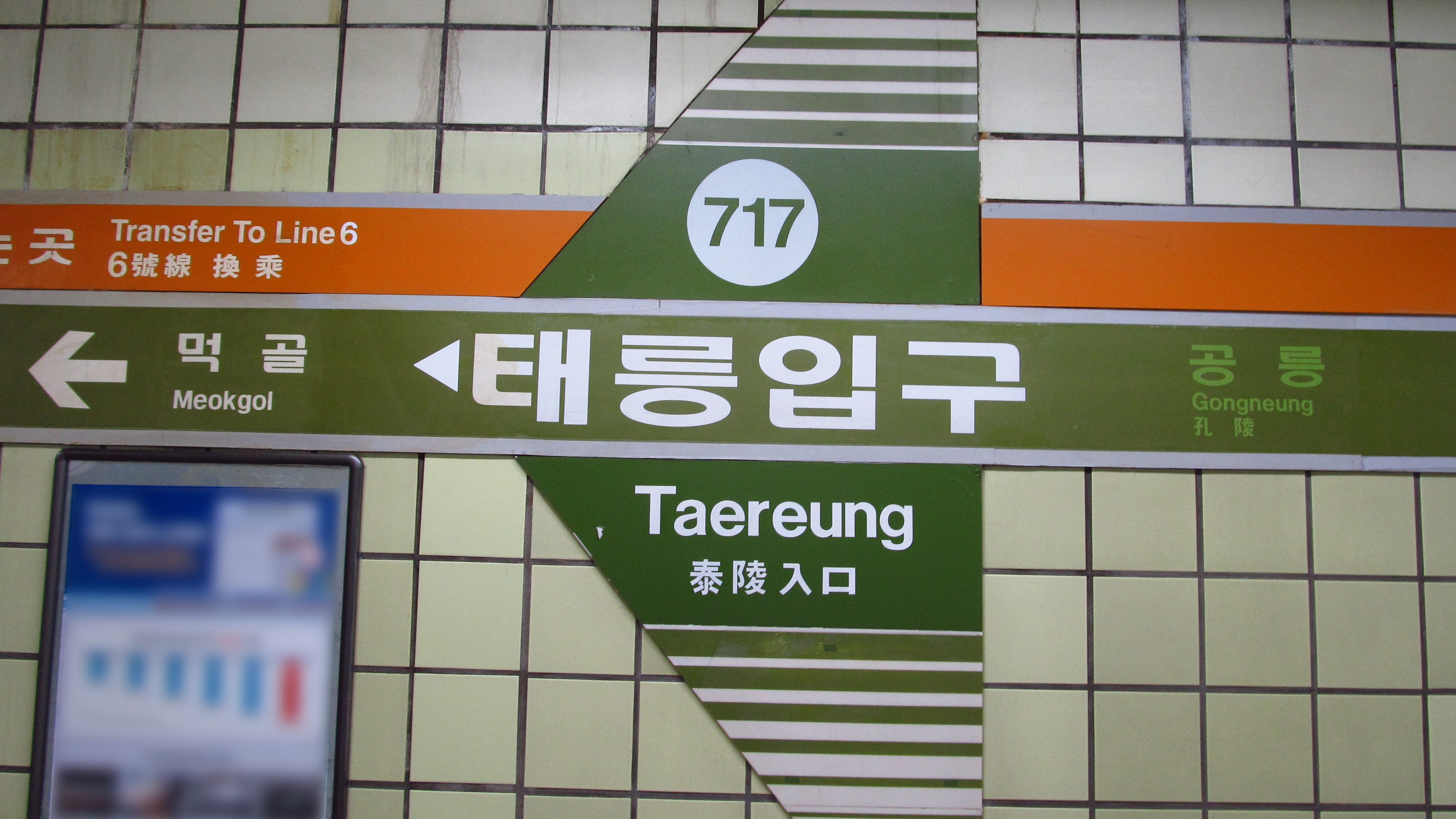 A sign of Taereung Station on Seoul Subway Line 7